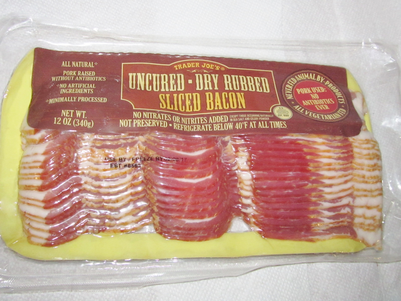 December 30th is National Bacon Day!